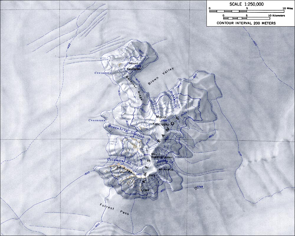 Topographical map of the Ames Range From